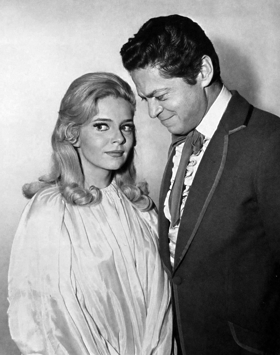 Photo of Ross Martin as Artemus Gordon with guest star Ann Elder from the television program The Wild, Wild West.